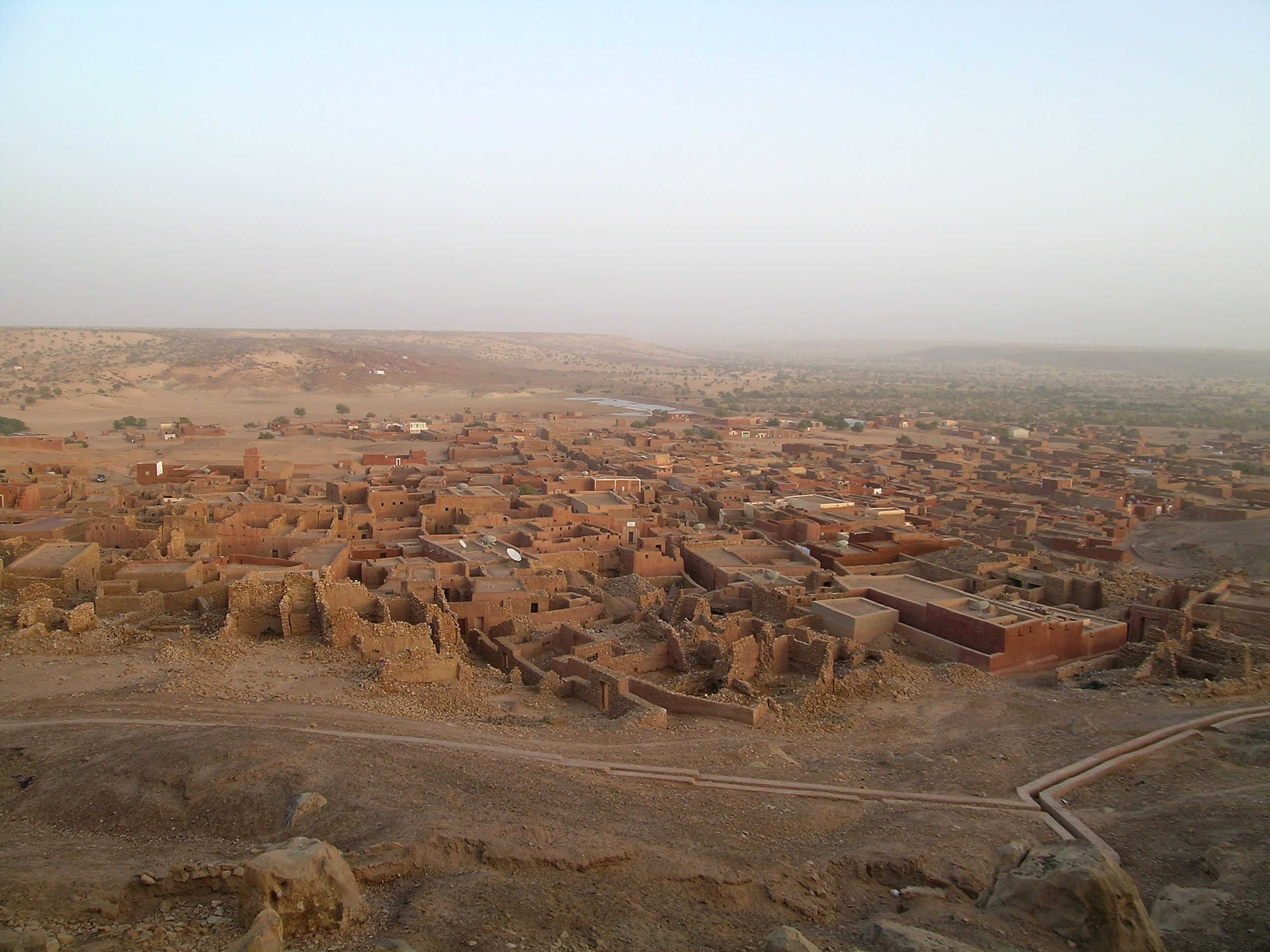 Aerial view of Oualata, Mauritania